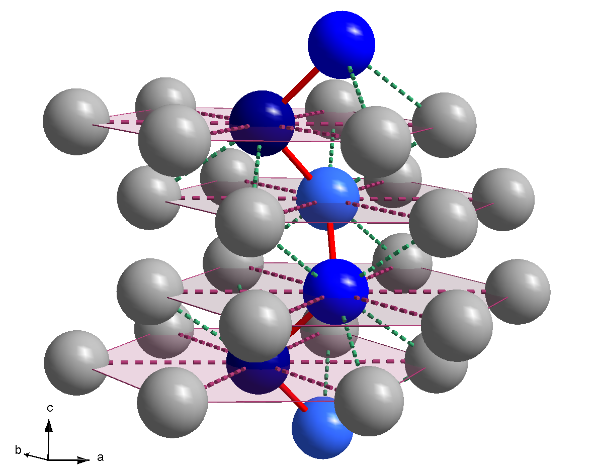 The chains in the crystal structure of tellurium along the 31-screw axis. The chain is highlighted in blue colors where the dark blue atom is situated on c = 1/3, middle blue on c = 2/3 and light blue on c = 0. Thick red bonds represent covalent bonds between atoms in the chain (d = 284 pm), dashed green bonds secondary contacts between chains (d = 349 pm) and dashed purple bonds represent the hexagonal surrounding within a "layer" of tellurium (d = 446 pm).